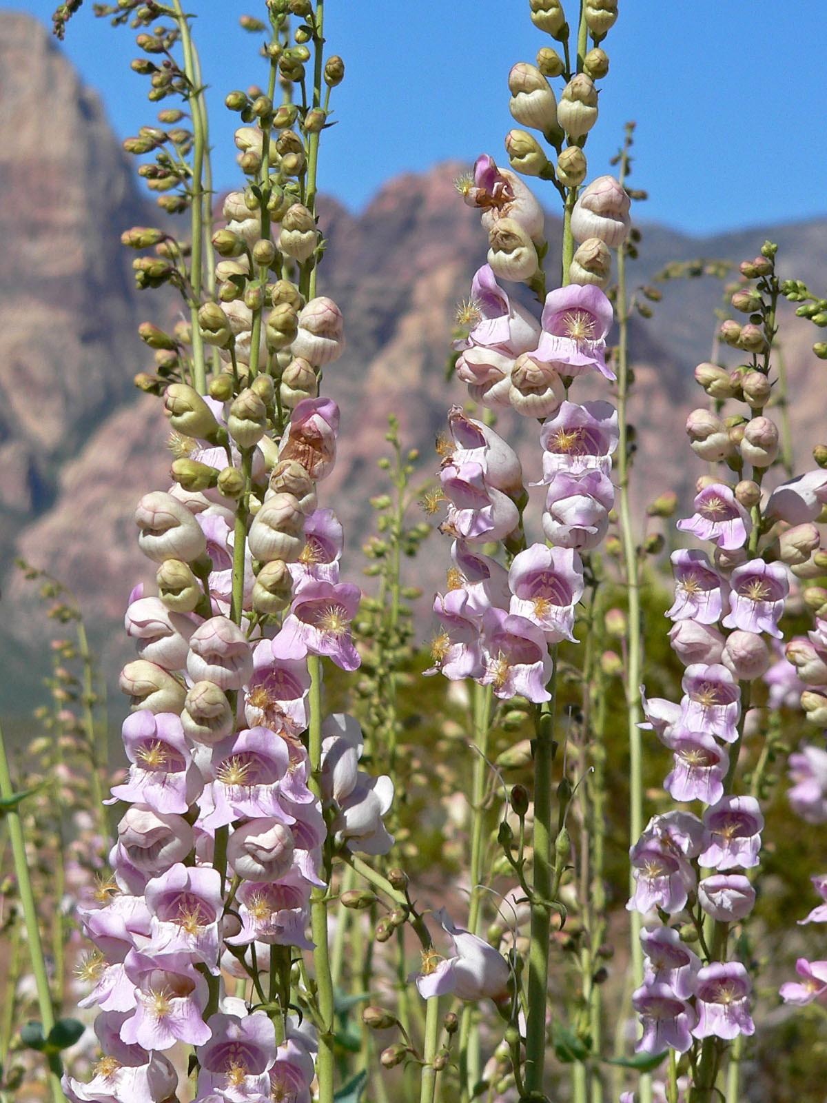 Photo of Penstemon palmeri in Red Rock Canyon, Nevada